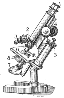 Microscope